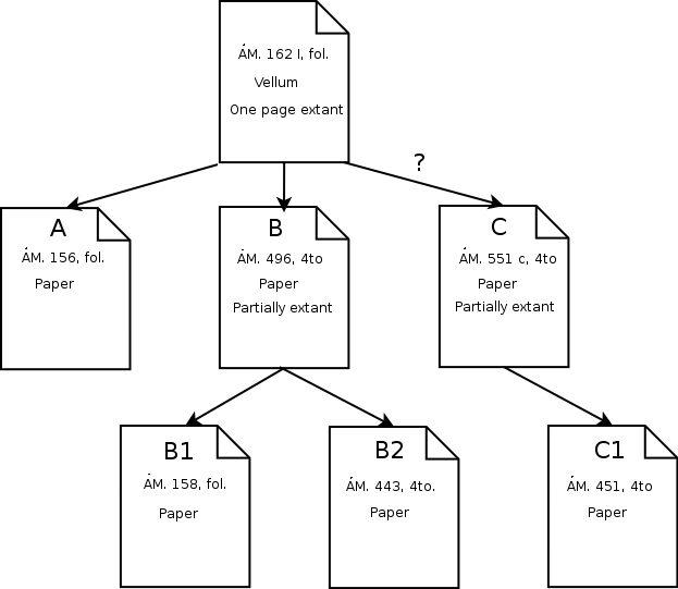 Scheme of manuscript transmission for Hrafnkels saga.